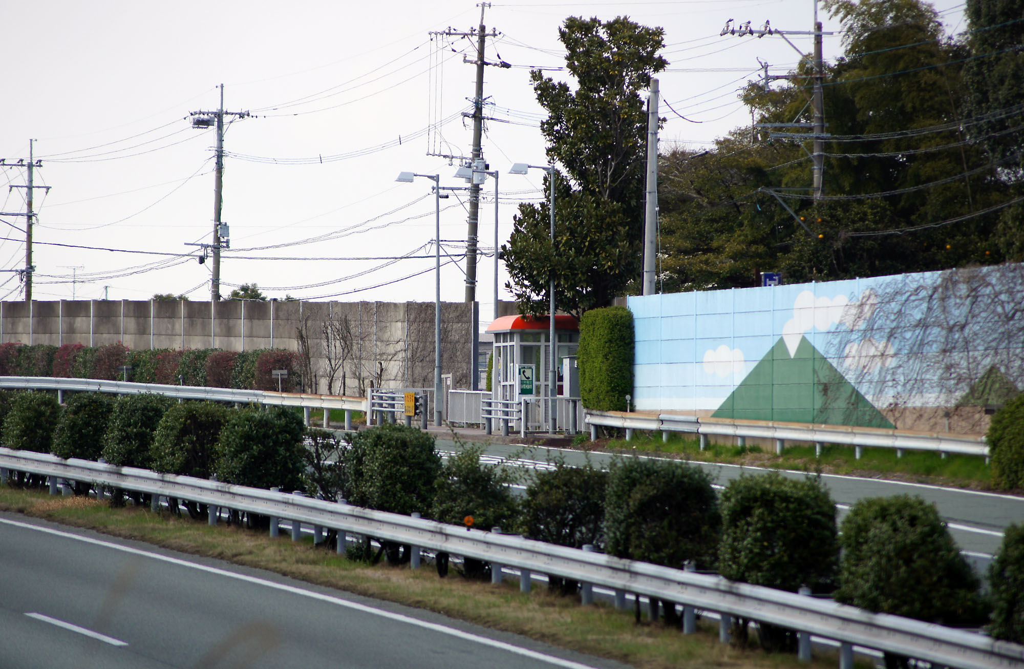 Musashigaoka Bus Stop on the Kyushu Expressway for Kagoshima